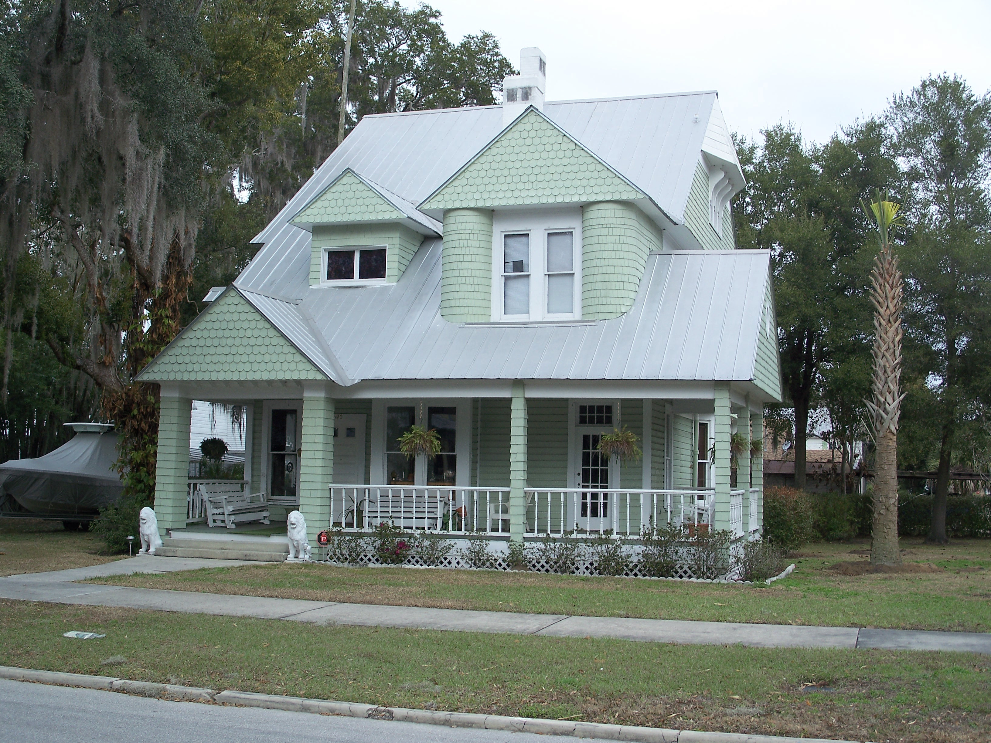 Bartow, Florida: South Bartow Residential District: Benjamin Franklin Holland House